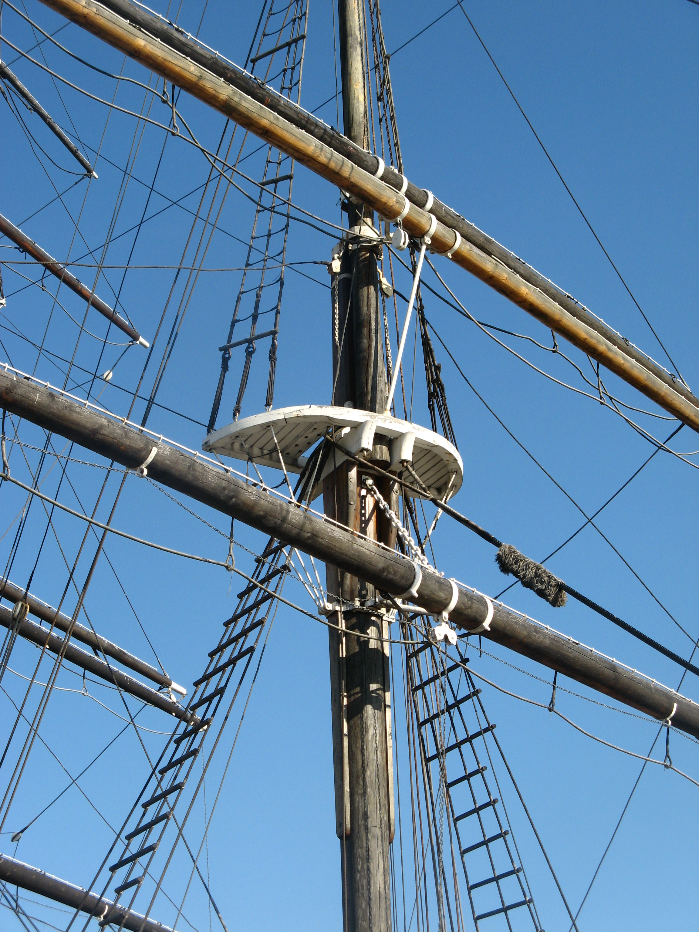 Foremast top of the barque Sigyn